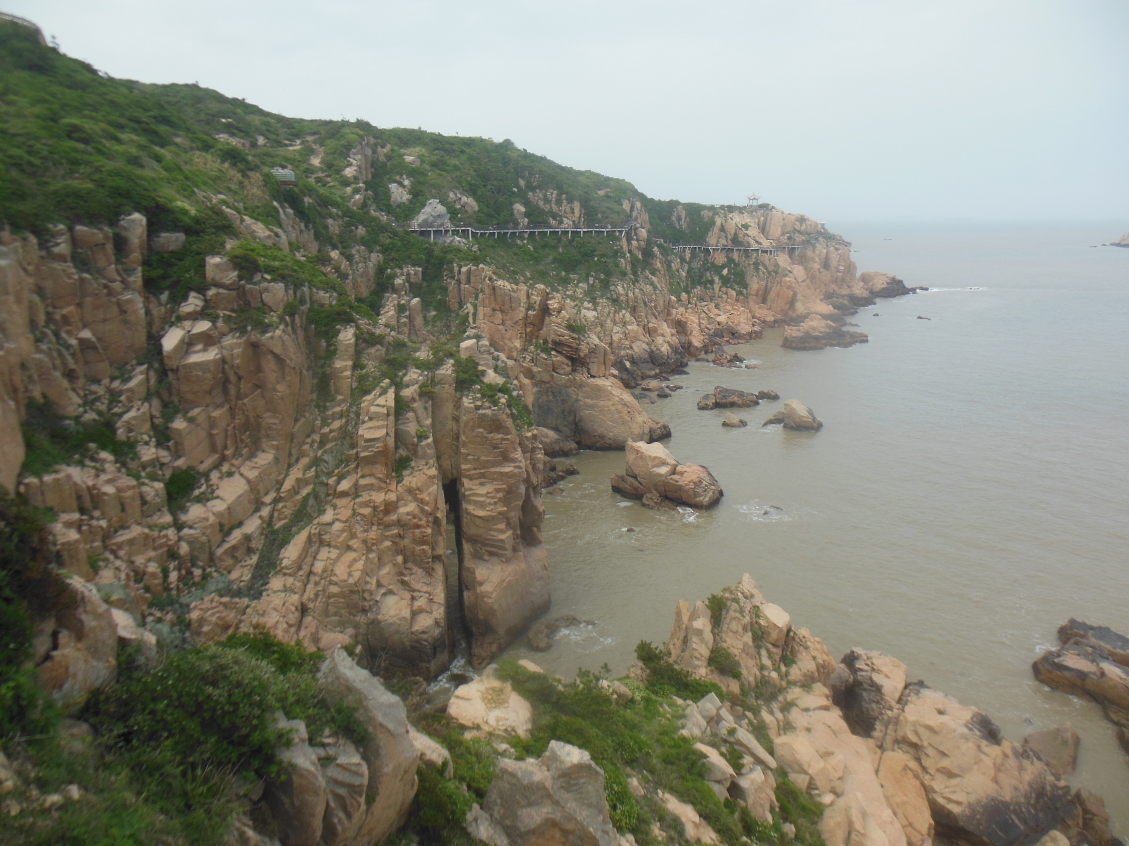 shengsi cliff 嵊泗的悬崖